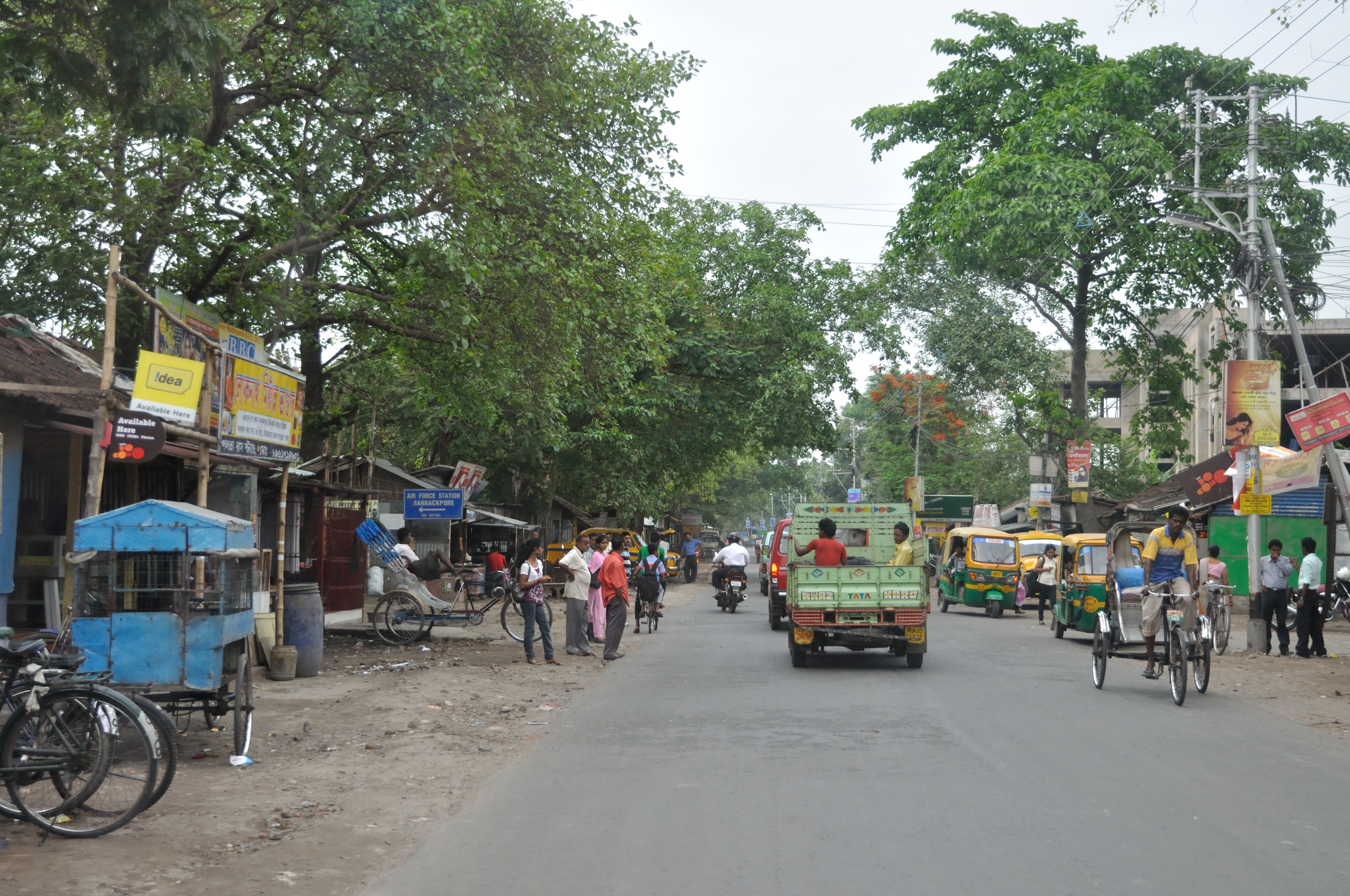 photographed in greater Kolkata.